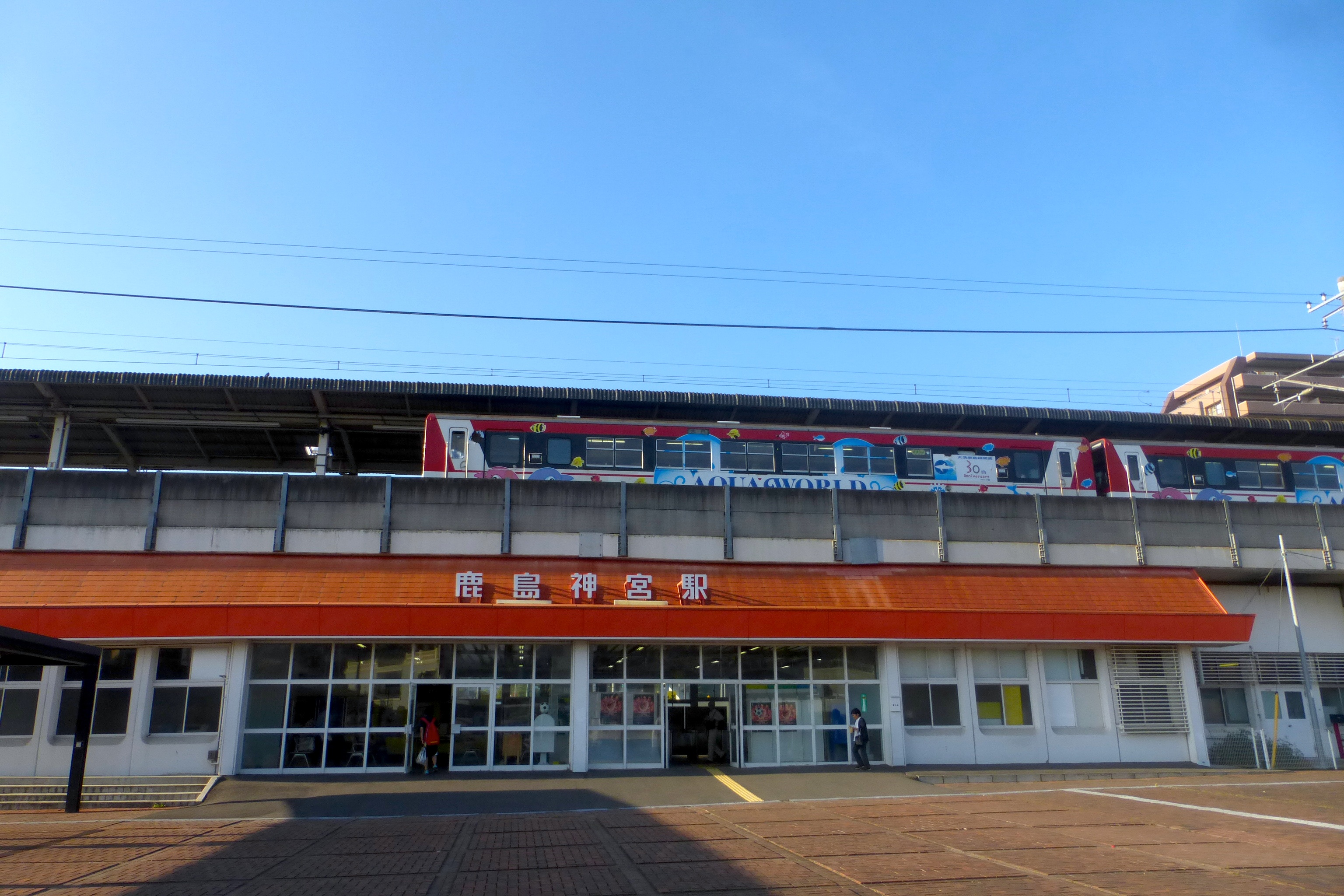 鹿島神宮駅の前 (front of Kashimajingu Station)